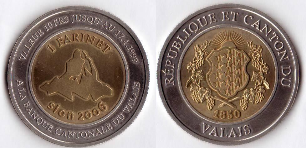 Inofficial coin of the Canton of Valais from 2006, named after famous Joseph-Samuel Farinet